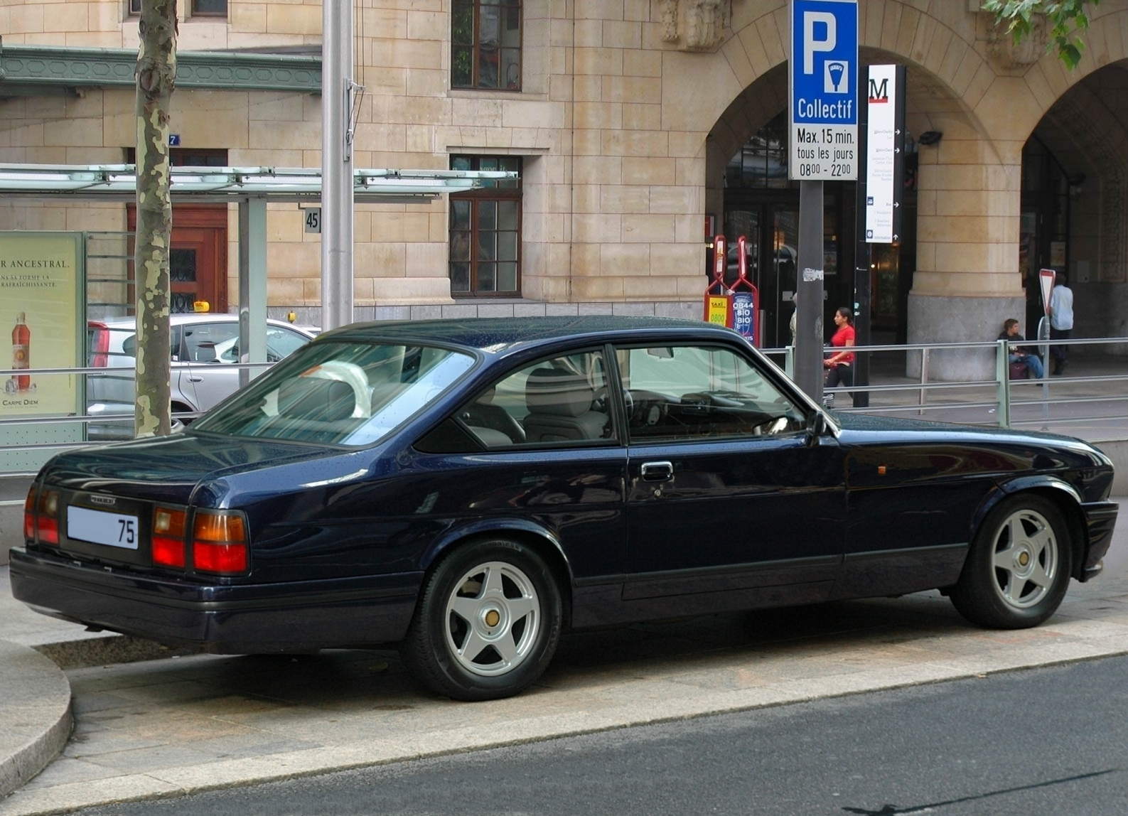 Bristol Blenheim Mk. 3